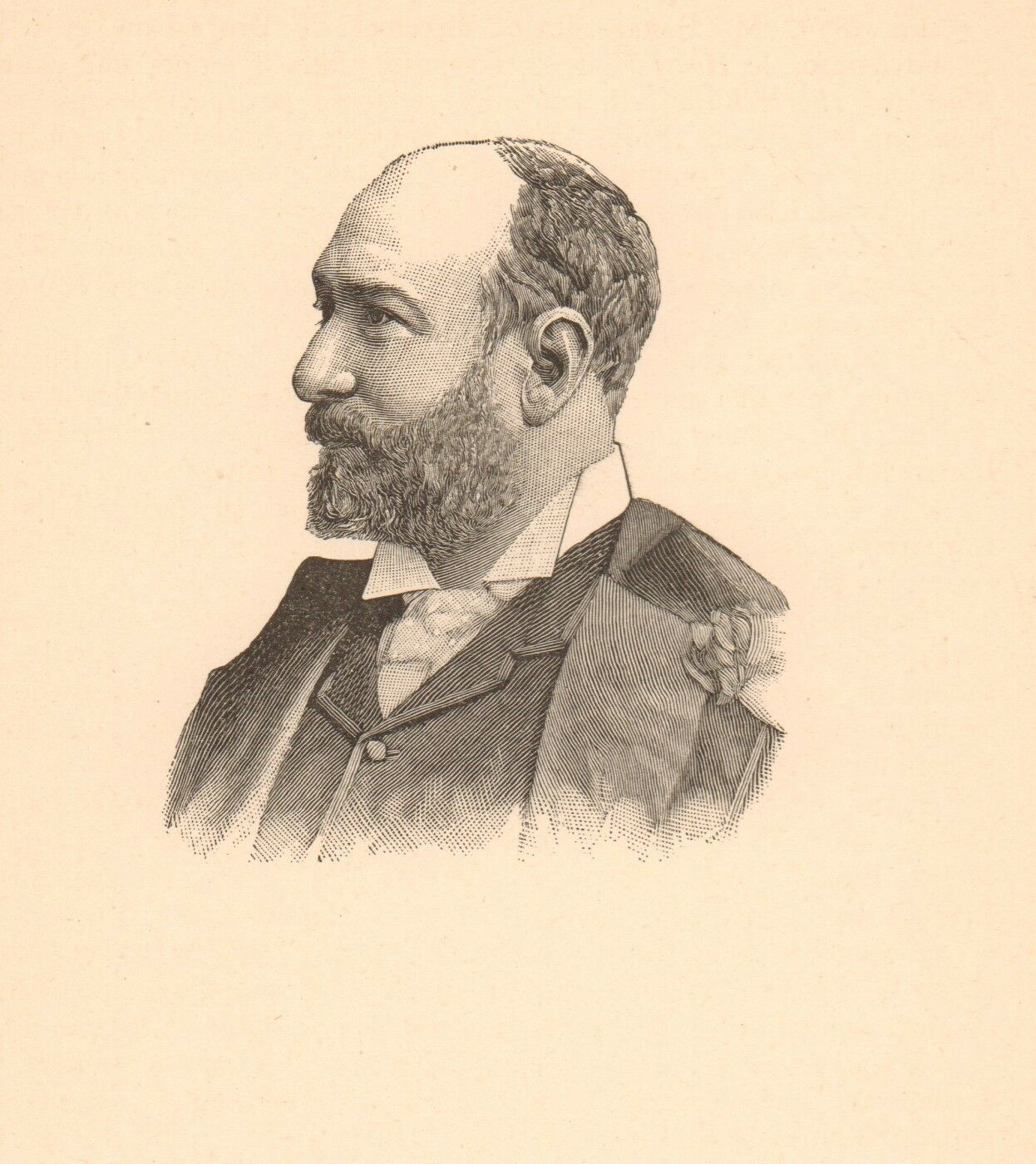 British dramatist Augustus Harris (1852-1896)